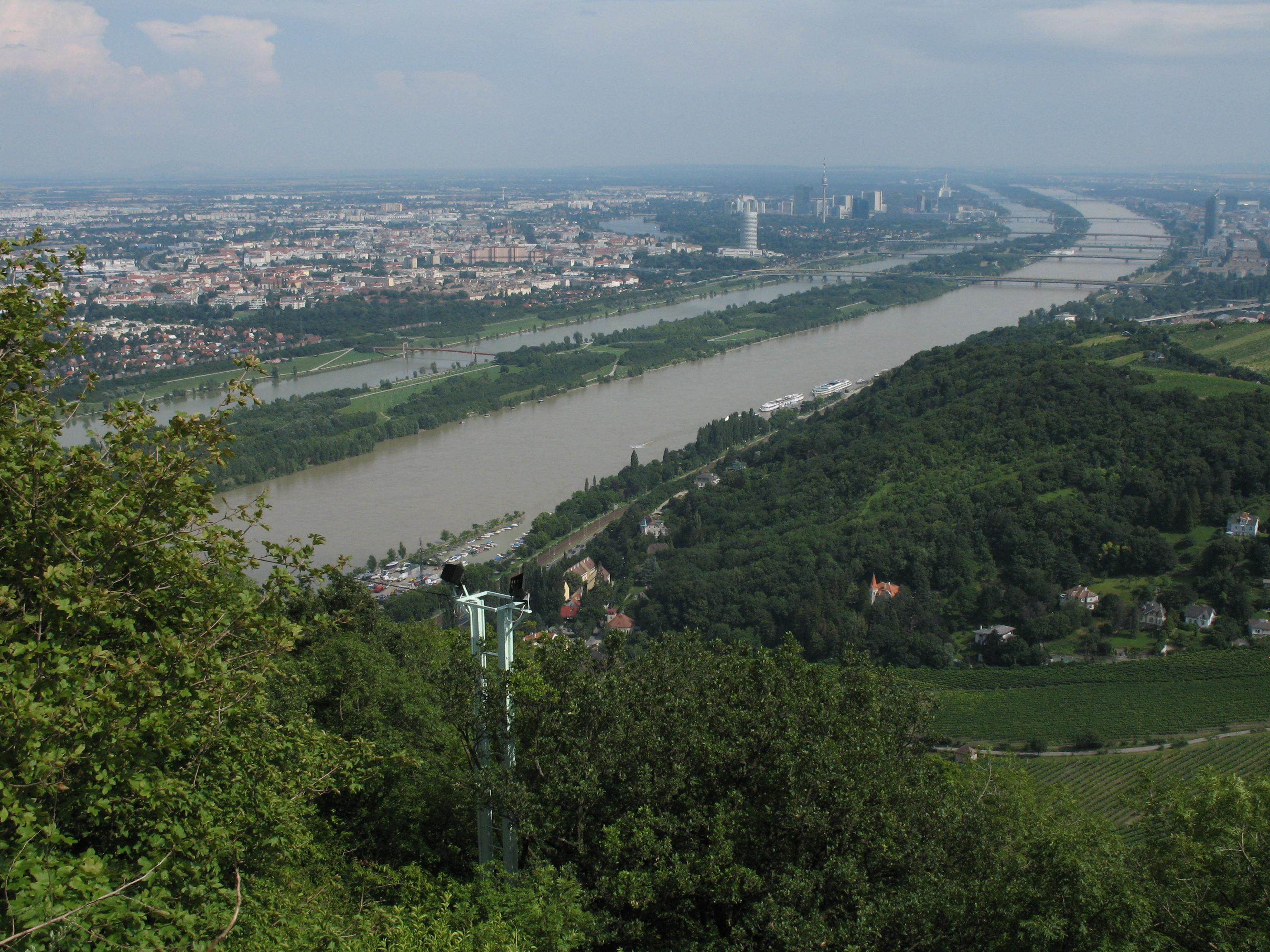 Austria, Vienna, Danube